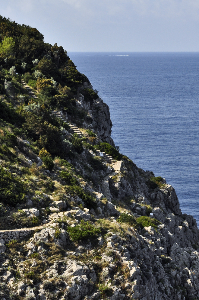 The Trail of Forts at Anacapri